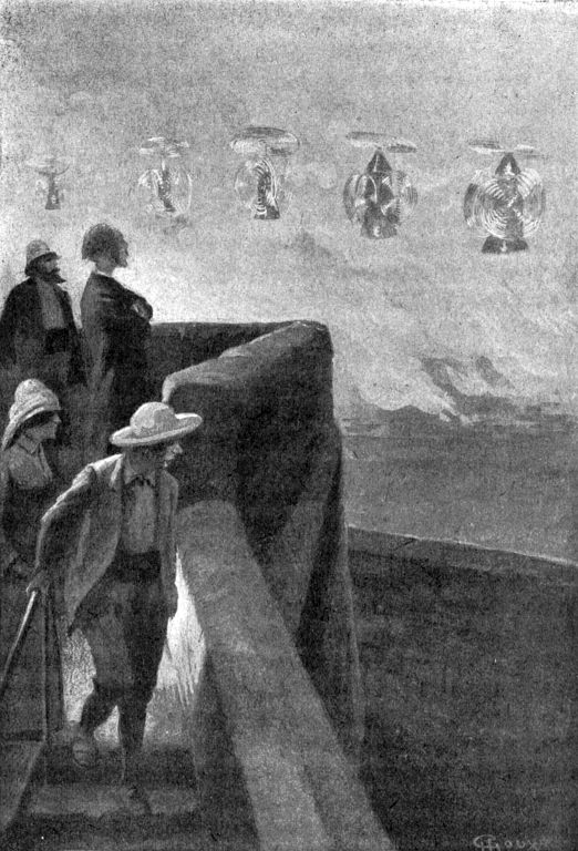 An illustration from Jules Verne's novel "The Barsac Mission" drawn by George Roux.